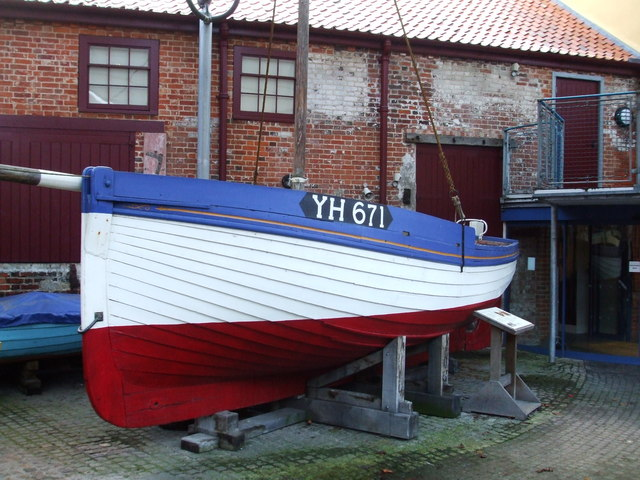 Fishing boat YH 671 CORONATION , Burnham-on-Crouch and District Museum